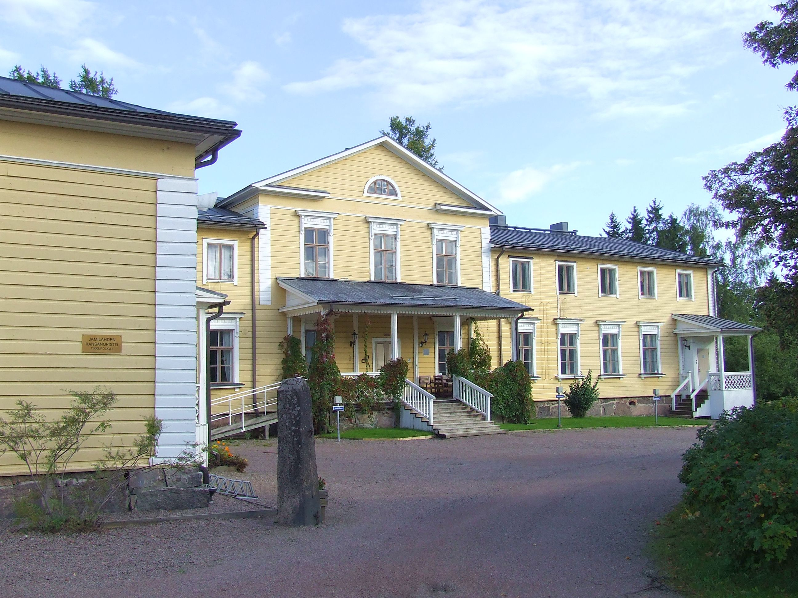 Poitsila manor in Hamina, Finland.